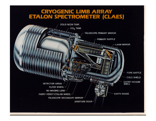 CLAES instrument on the Upper Atmosphere Research Satellite (UARS), a NASA mission to study the atmosphere of the earth and the chemicals that are affecting the ozone layer.